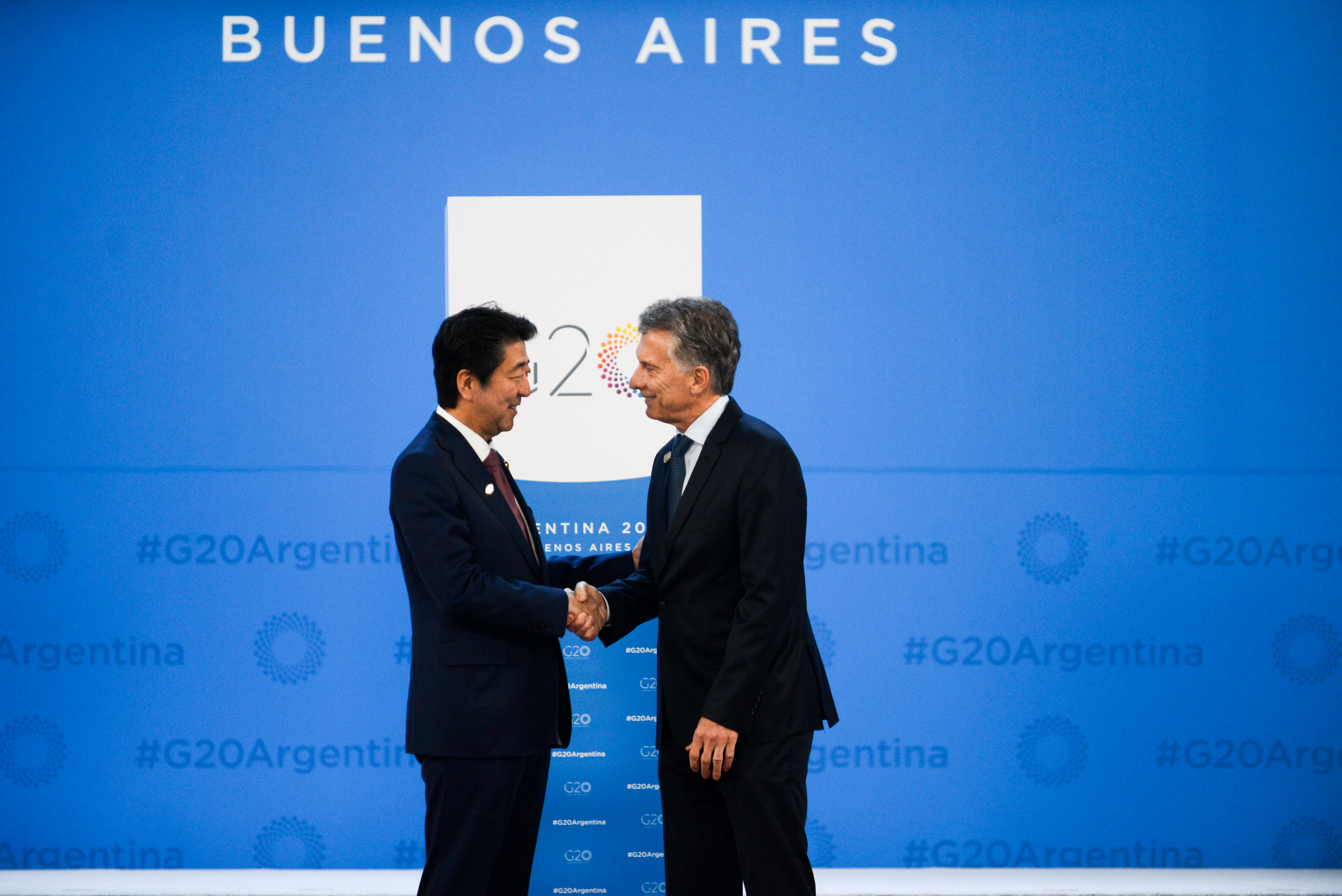 Official Welcome - Prime Minister, Shinzo Abe